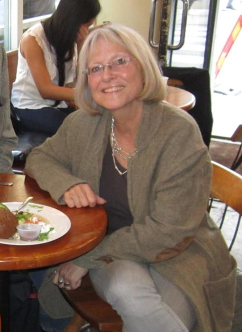 Pia GaddPlace: Tully's Coffee, Götgatan, Stockholm, Sweden